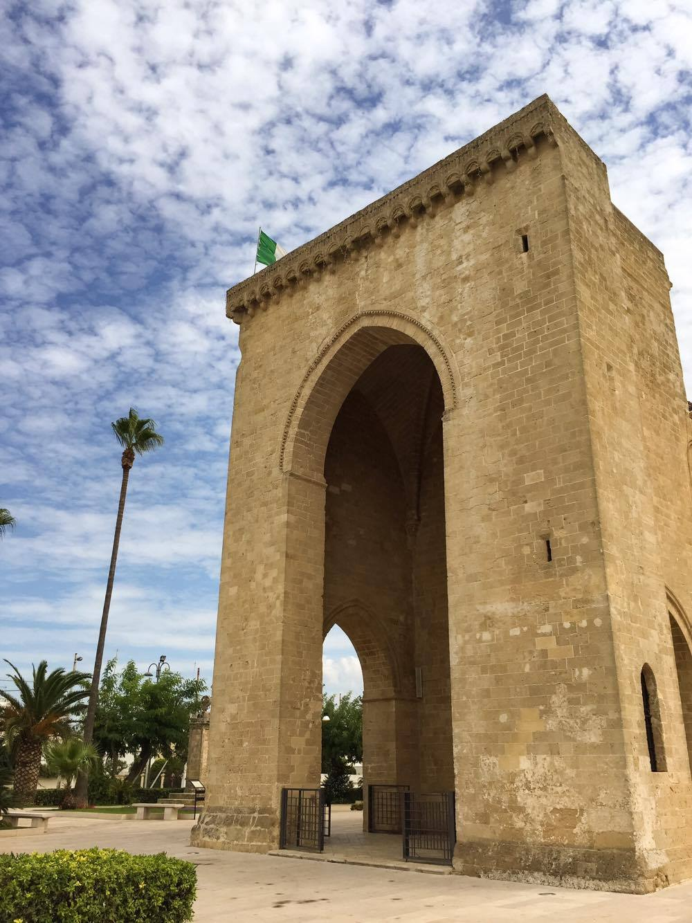 Chiesa di Santa Maria della Lizza